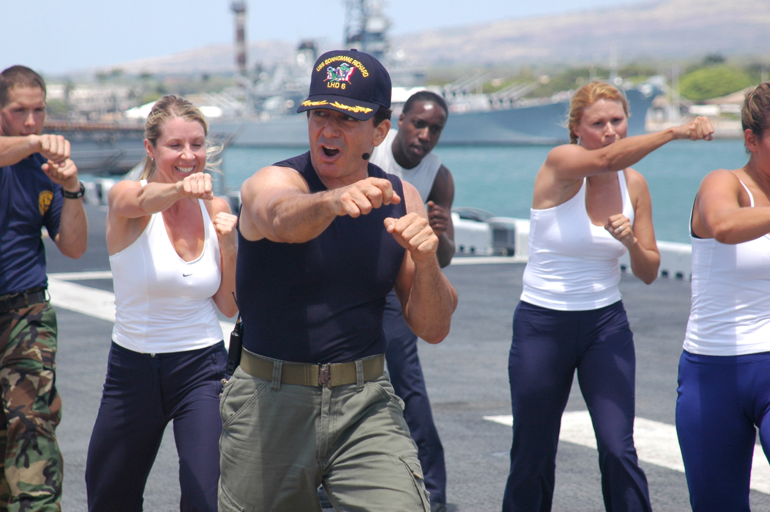 Pearl Harbor (June 27, 2006) – Gilad of the Fit TV show, Bodies in Motion, films a show aboard the amphibious assault ship USS Bonhomme Richard (LHD 6). Sailors participated in the filming on the flight deck during Rim of the Pacific (RIMPAC) 2006. Eight nations are participating in RIMPAC 2006, the world’s largest biennial maritime exercise. Conducted in the waters off Hawaii, RIMPAC 2006 brings together military forces from Australia, Canada, Chile, Peru, Japan, the Republic of Korea, the United Kingdom and the United States. U.S. Navy photo by Storekeeper 1st Class Blaine W. Smith (RELEASED)